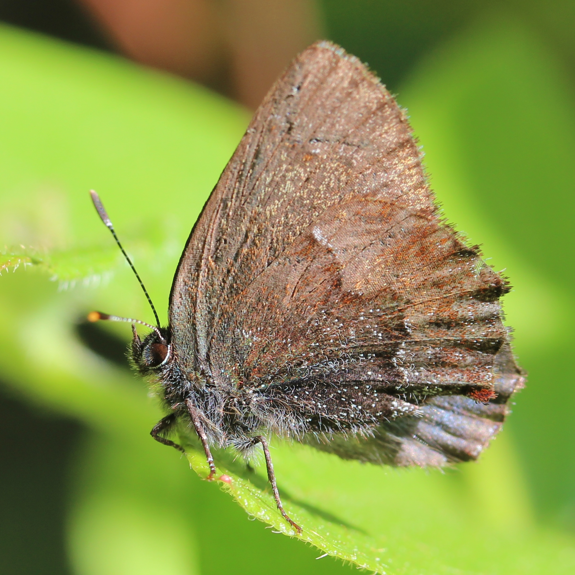 Callophrys ferrea, in Kasugai, Aichi, Japan